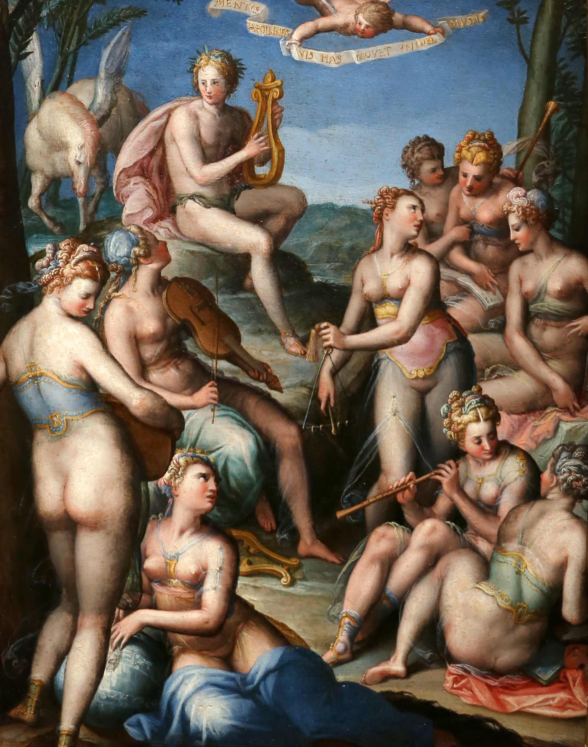 Museo Borgogna (Vercelli)